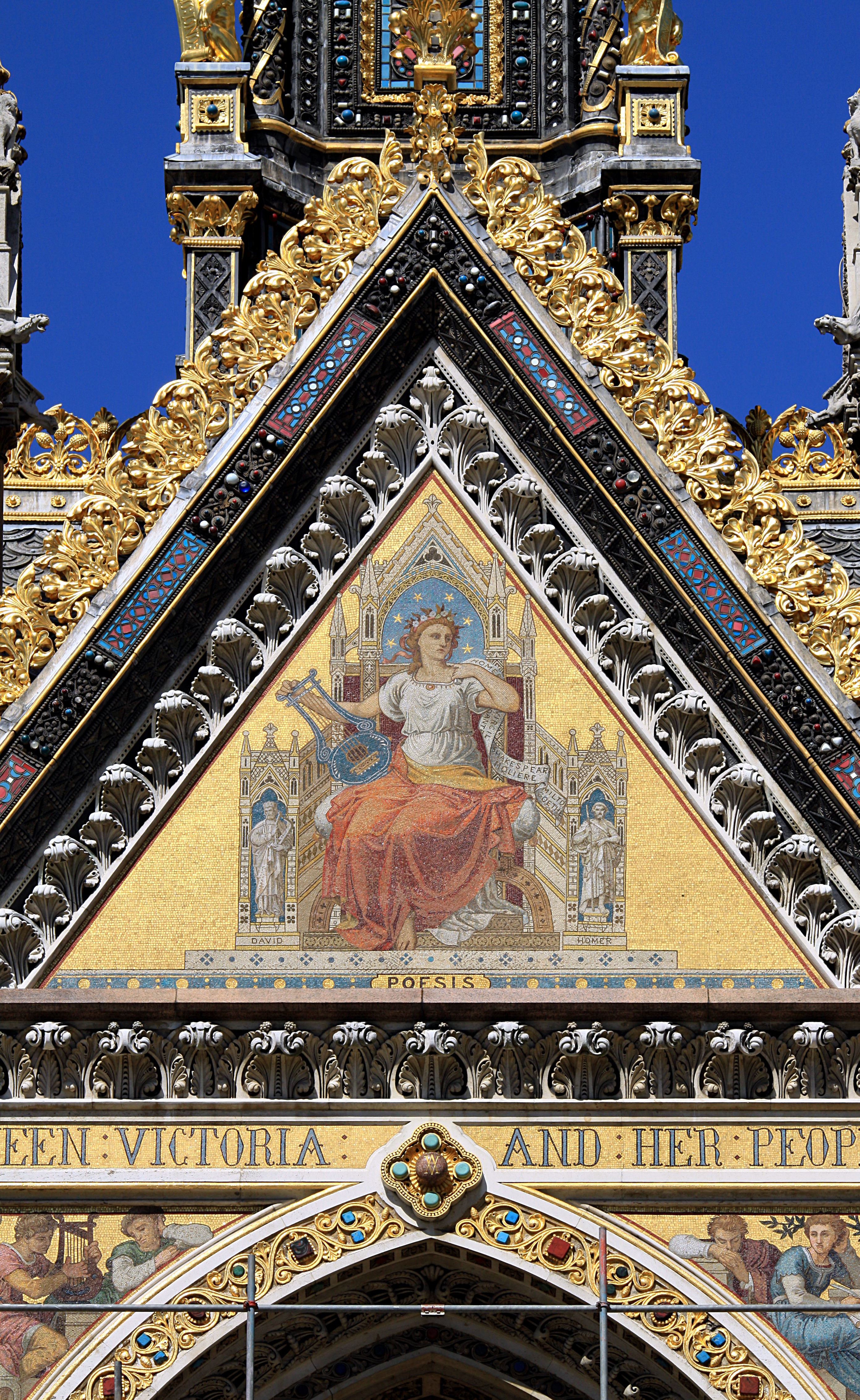 Detail of the southern mosaic at the Albert Memorial in the Kensington Gardens, the City of Westminster, London, Great Britain. The making of this file was supported by Wikimedia UK.